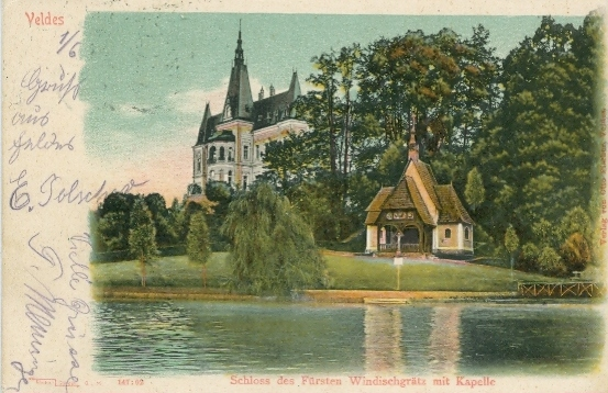 duke Windisch-Graetz's Mansion at Bled, Slovenia